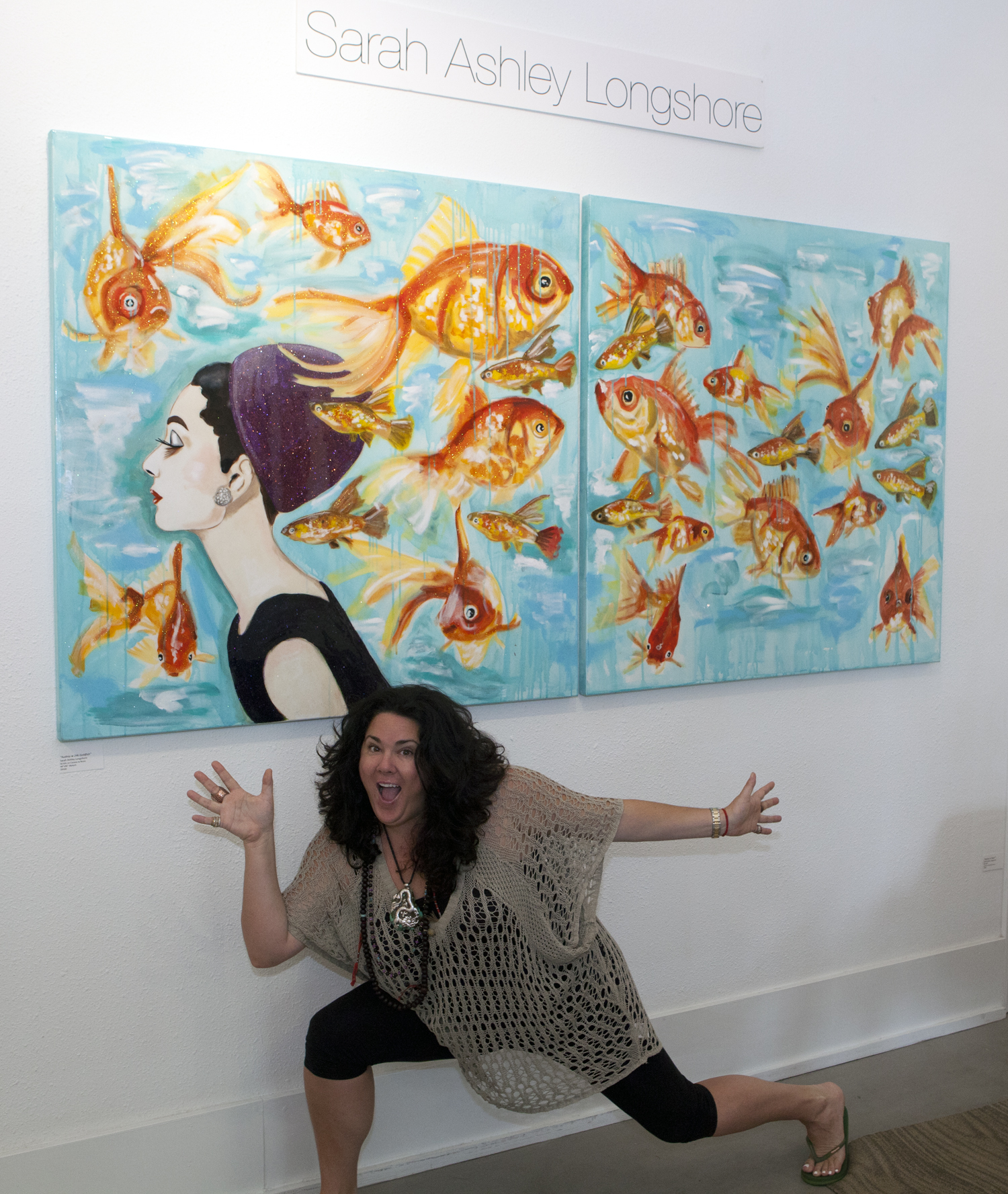 Ashley with Audrey Dipytch.